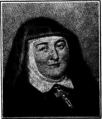 Founder of the Sisters of Charity, a Roman Catholic religious order for women